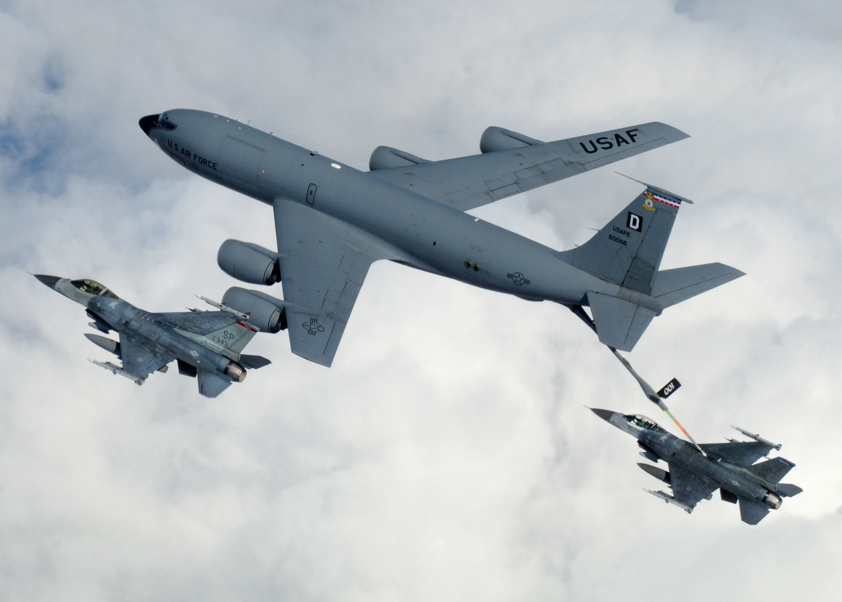 A KC-135 Stratotanker from Royal Air Force Mildenhall, England, refuels a pair of F-16 Fighting Falcons April 7 during a multinational exercise over the Baltic States. The Stratotankers from RAF Mildenhall feature the "Box D" tail marking, dating back to World War II.